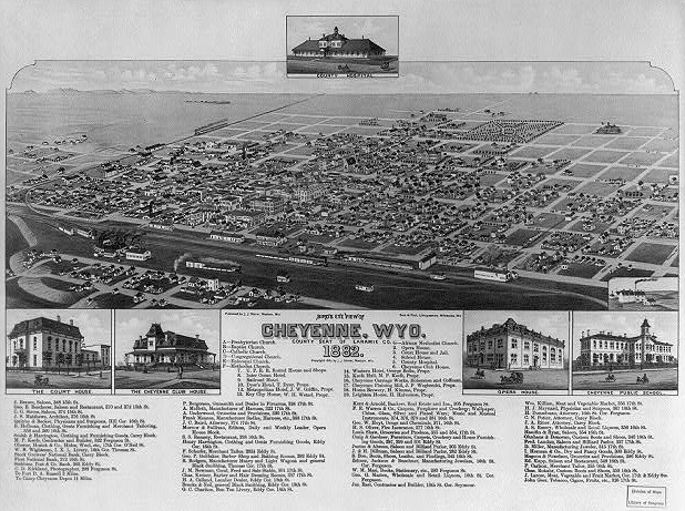 Bird's eye view of Cheyenne, Wyoming, county seat of Laramie County, 1882. Views of county hospital, court house, Cheyenne club house, opera house, Cheyenne public school.